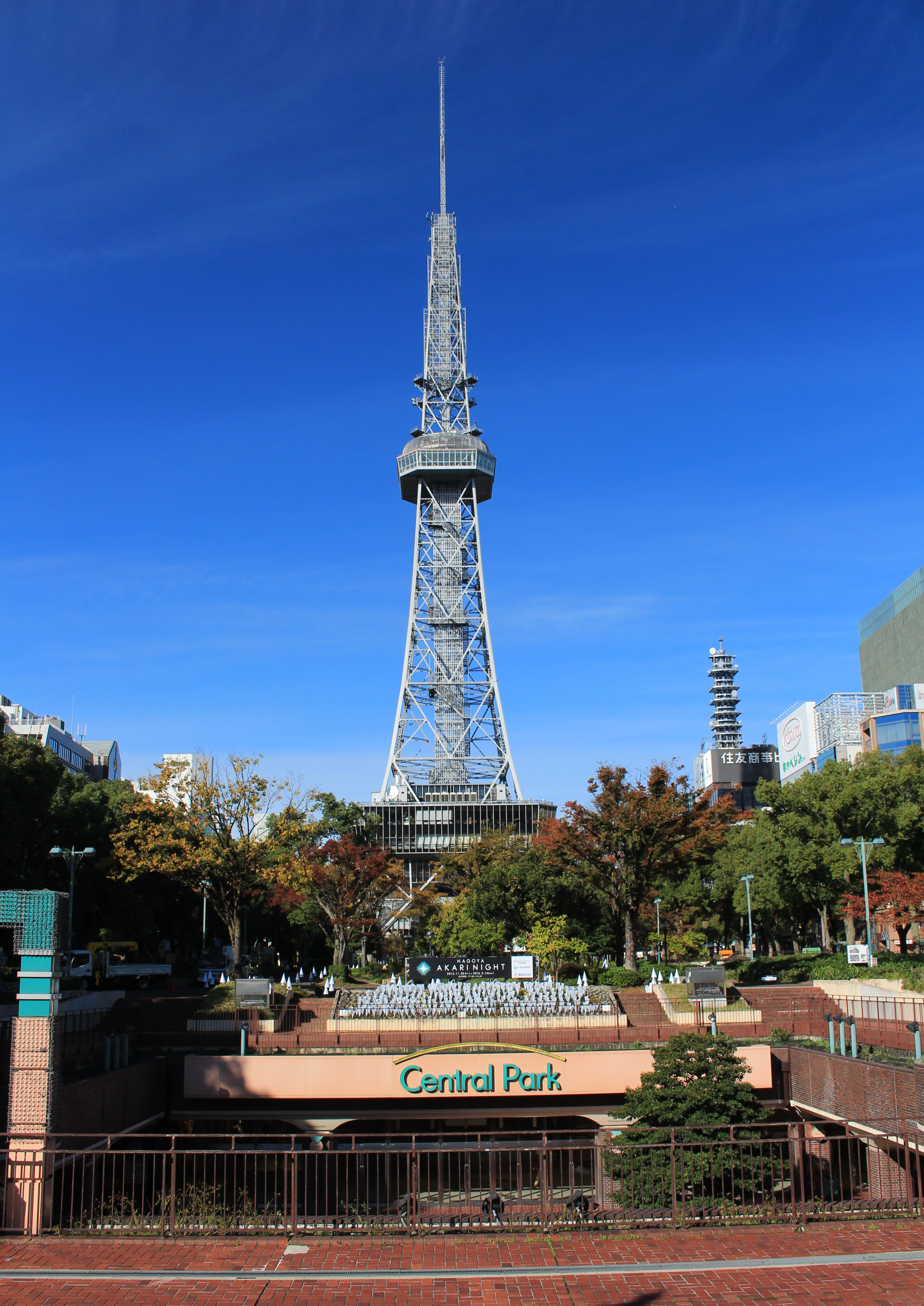 Nagoya TV Tower seen from Central Park in Nagoya, Aichi prefecture, Japan.